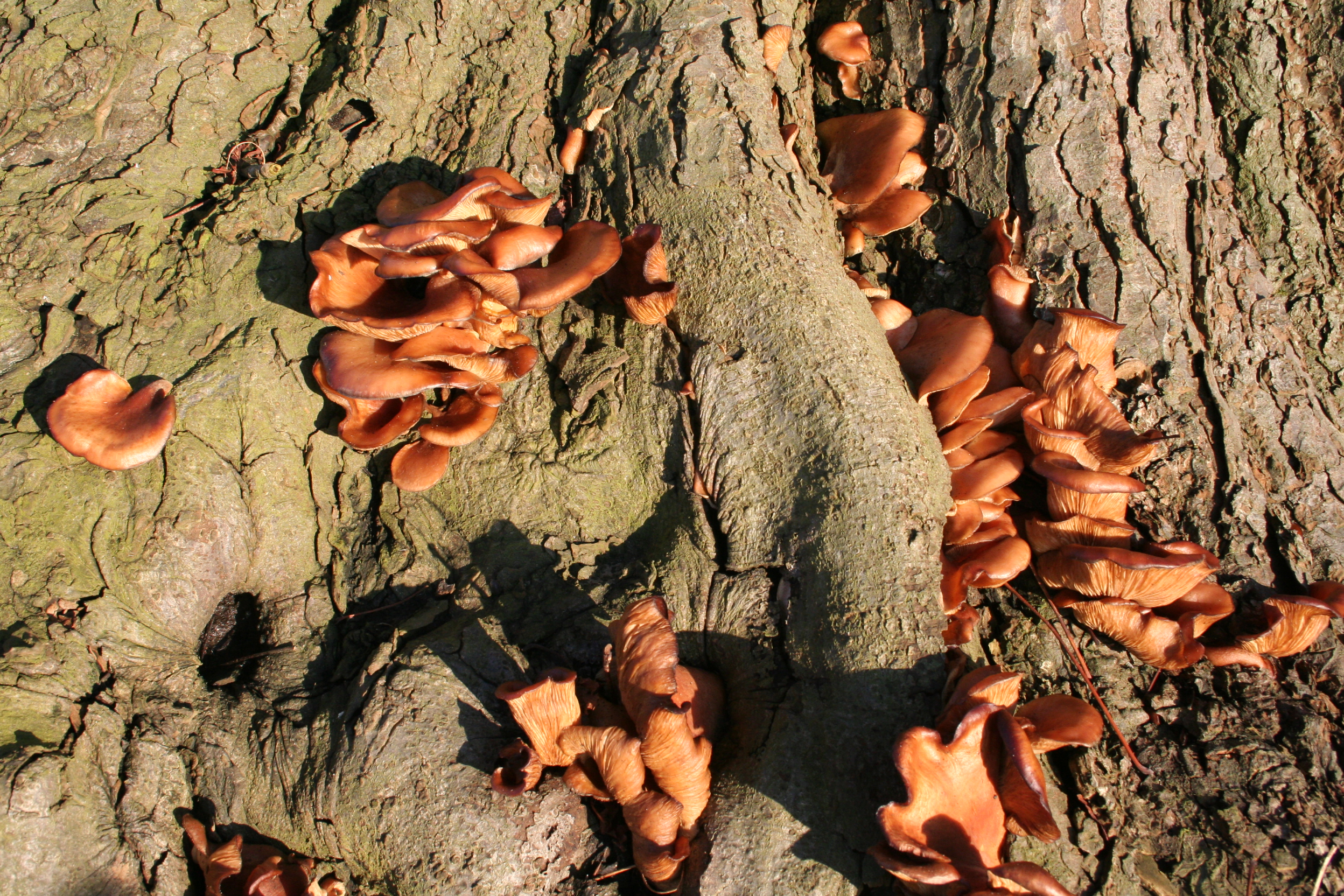 photo of mushroom taken in Croix-les-Rouveroy (Belgium). This mushroom has not been identified yet.